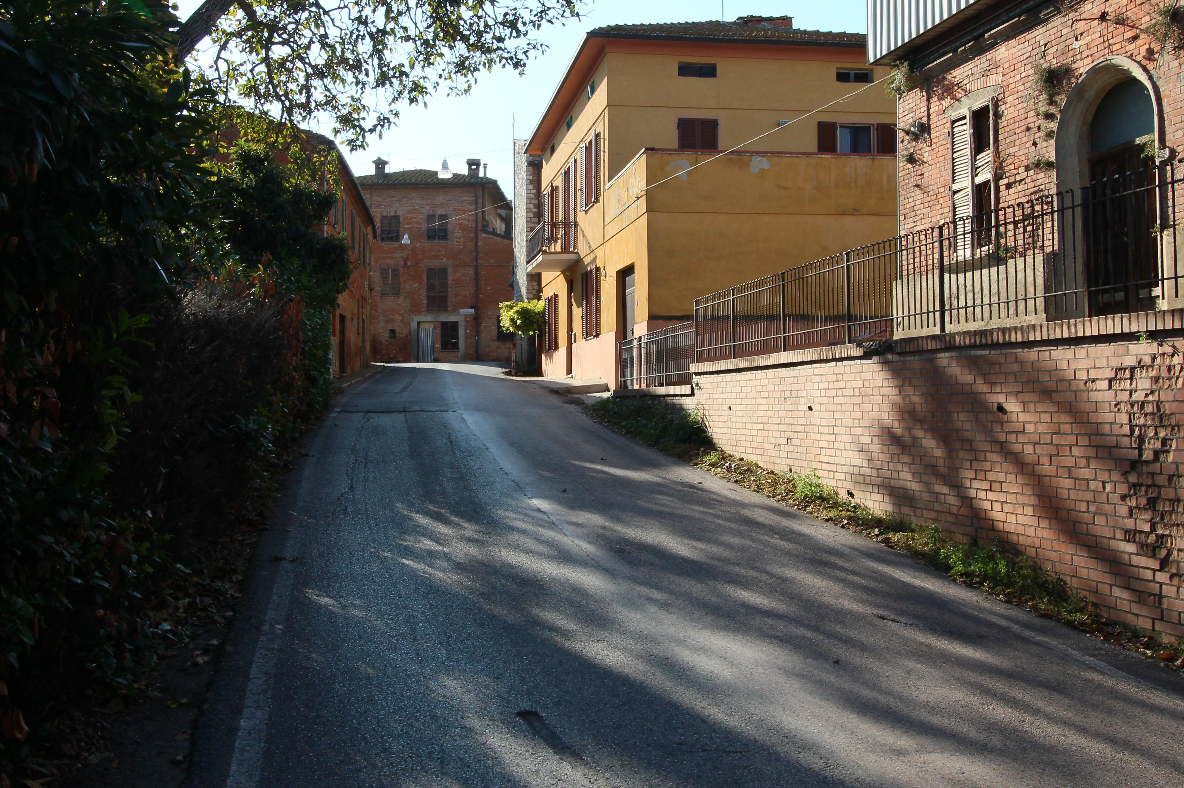 Petrignano (also Petrignano del Lago), hamlet of Castiglione del Lago, Province of Perugia, Umbria, Italy